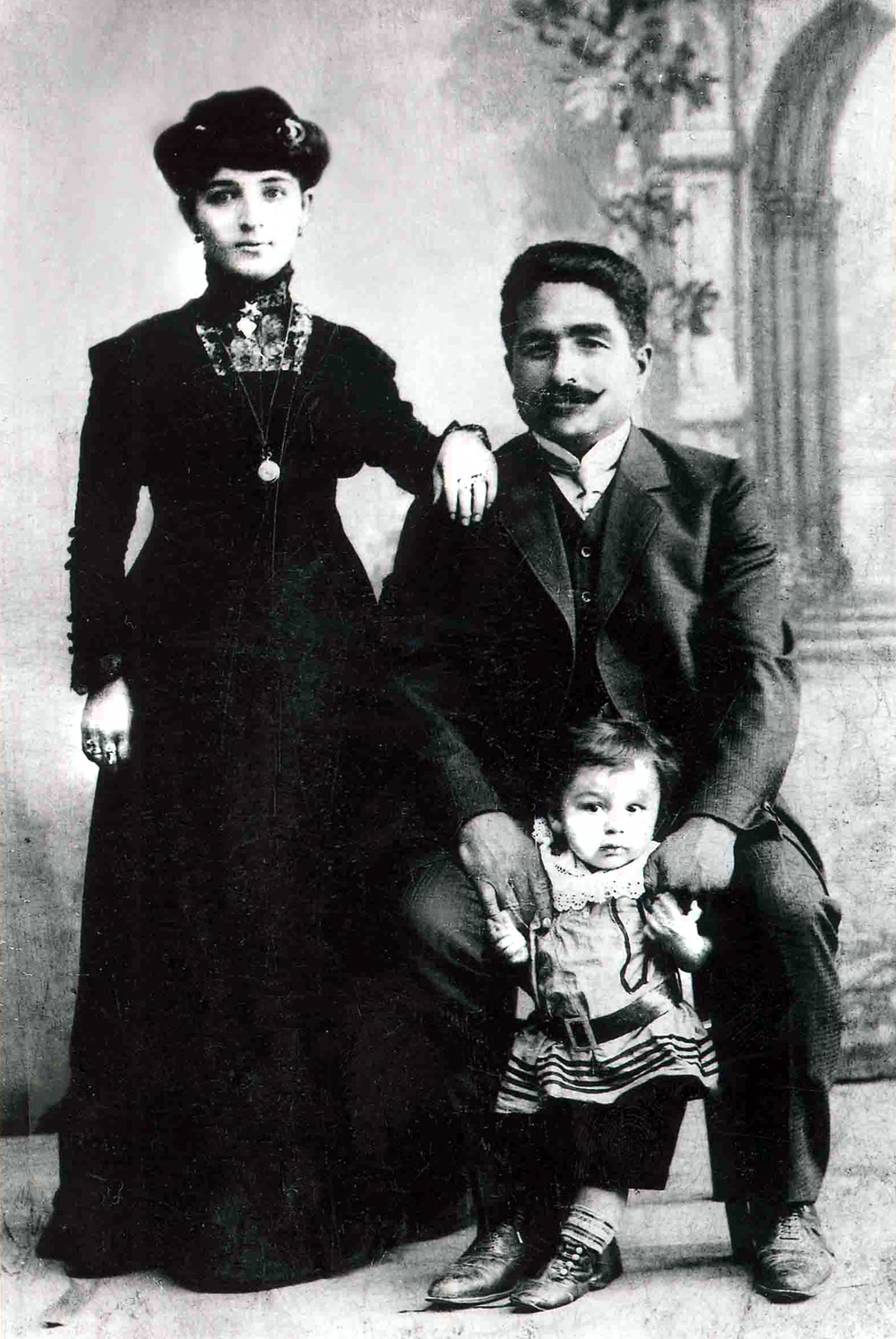 Cross-cultural couple in Baku, early 1900s. Georgian beauty Alexandra with Azerbaijani Alipasha Aliyev.